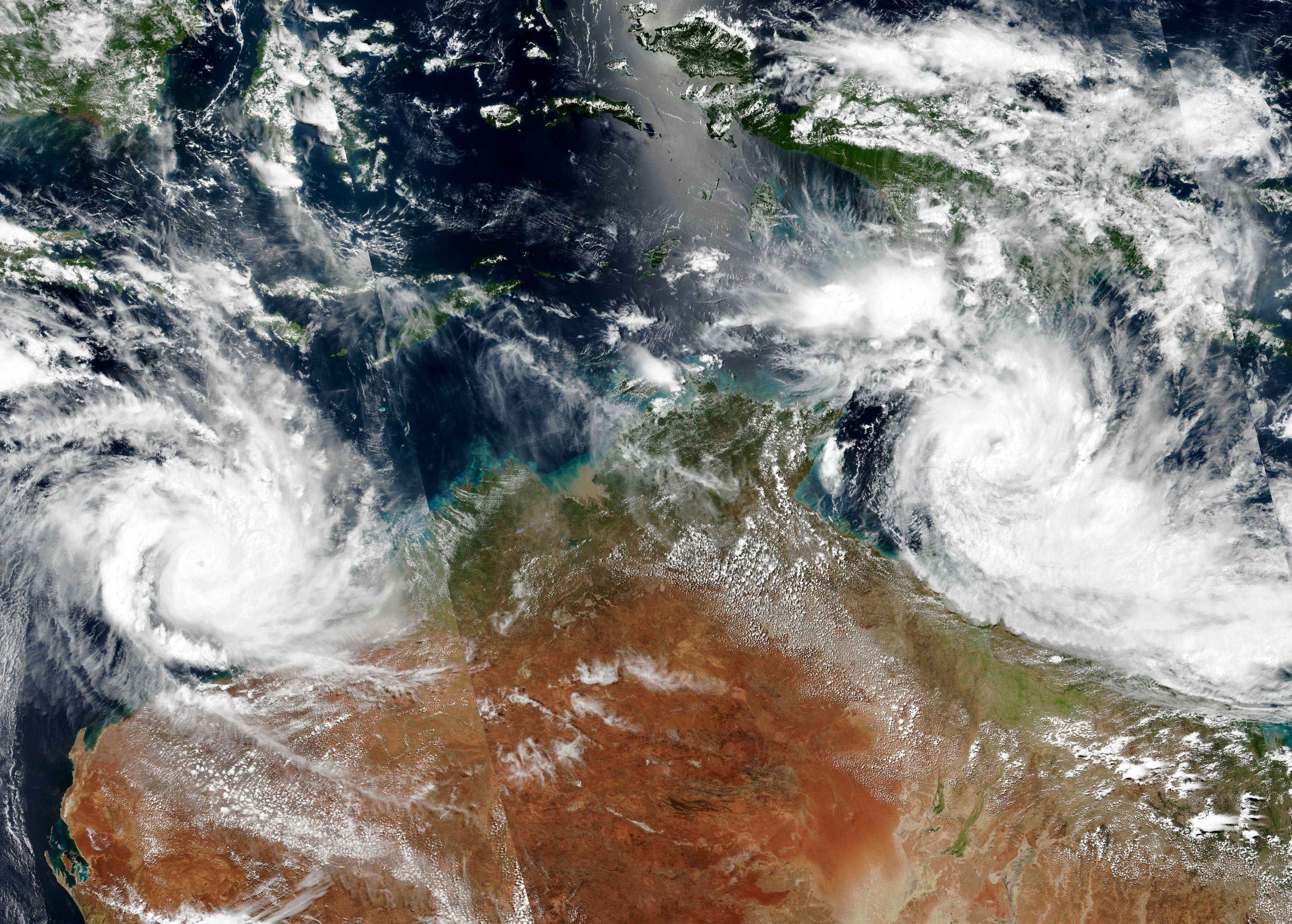 Two simultaneously tropical cyclones are currently active on 21 March 2019 in the Australian region basin, with Veronica to the left and Trevor to the right.